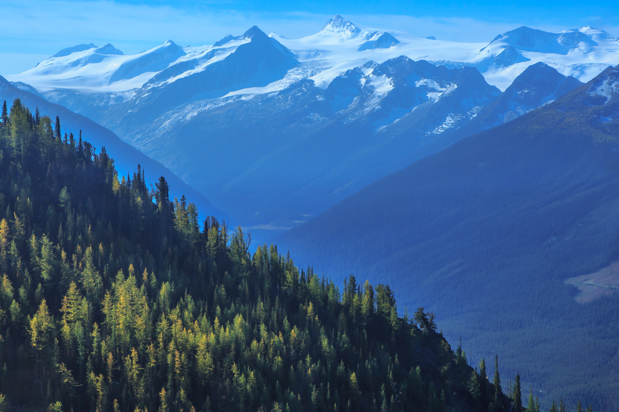 The Purcell Mtns near Bobbie Burns Creek